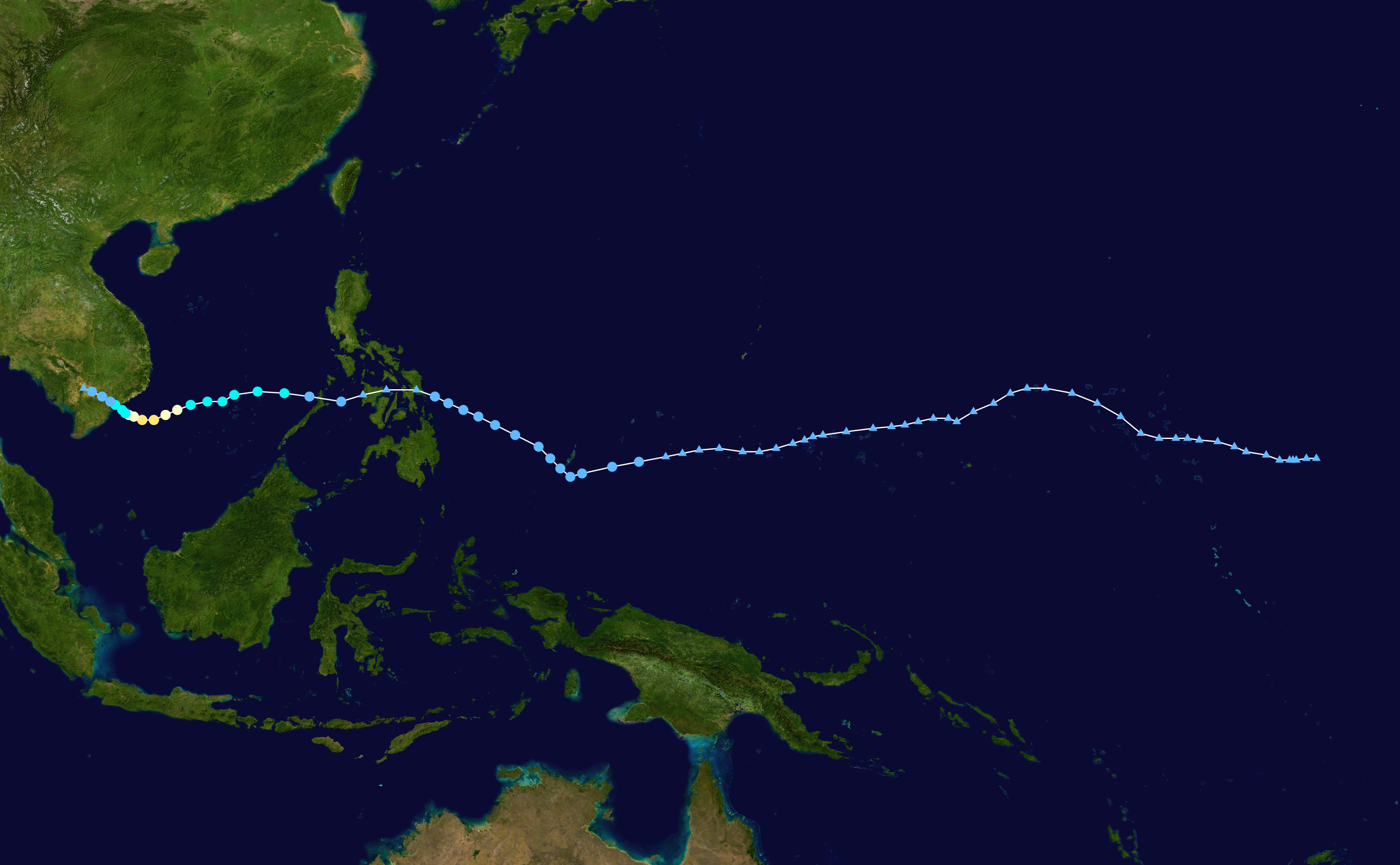 Track map of Severe Tropical Storm Usagi of the 2018 Pacific typhoon season. The points show the location of the storm at 6-hour intervals. The colour represents the storm's maximum sustained wind speeds as classified in the Saffir–Simpson scale (see below), and the shape of the data points represent the nature of the storm, according to the legend below. Saffir–Simpson scale Tropical depression≤38 mph≤62 km/h Category 3111–129 mph178–208 km/h Tropical storm39–73 mph63–118 km/h Category 4130–156 mph209–251 km/h Category 174–95 mph119–153 km/h Category 5≥157 mph≥252 km/h Category 296–110 mph154–177 km/h Unknown Storm type Tropical cyclone Subtropical cyclone Extratropical cyclone / Remnant low / Tropical disturbance / Monsoon depression